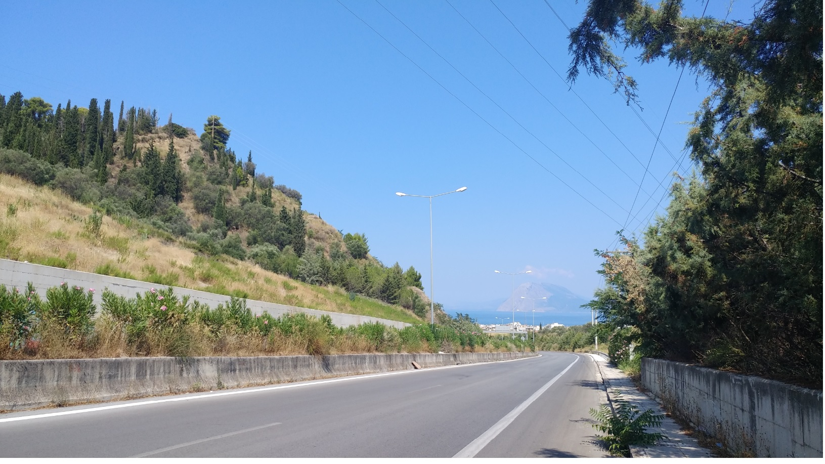 Patras' mini/short bypass. August 1, 2019.